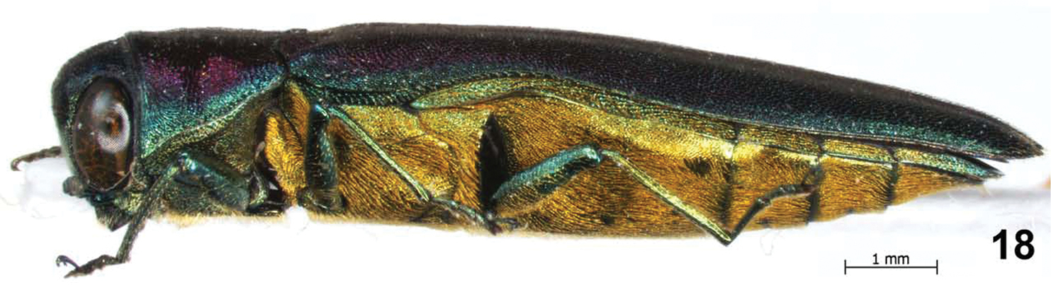 Agrilus crepuscularis Jendek & Chamorro, holotype male, lateral view.